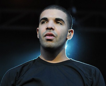 Drake performing on July 16, 2010 at the Cisco Ottowa Bluesfest